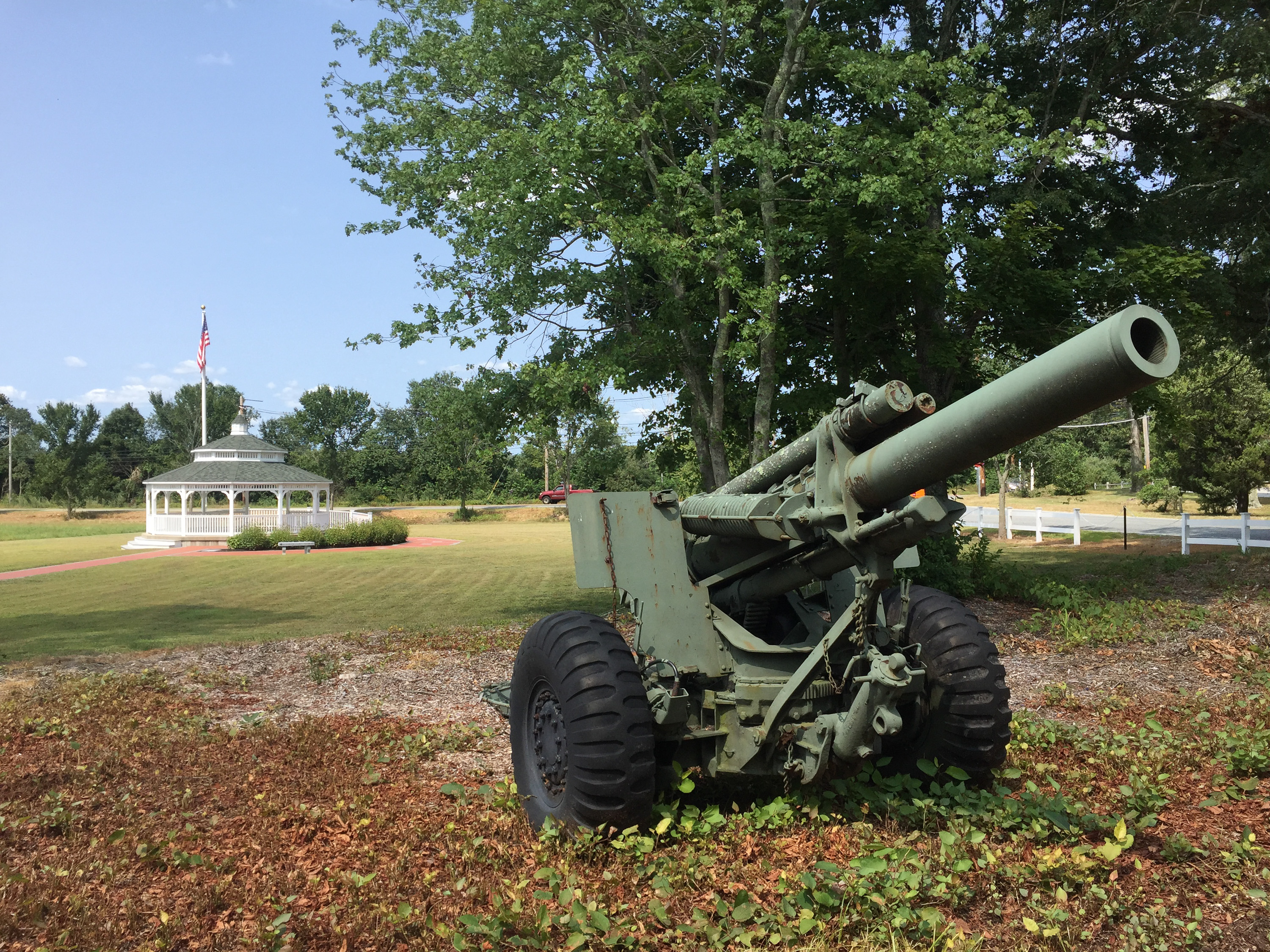 Artillery on display at Redway Plain, at Route 44 and Bay State Road, Rehoboth MA